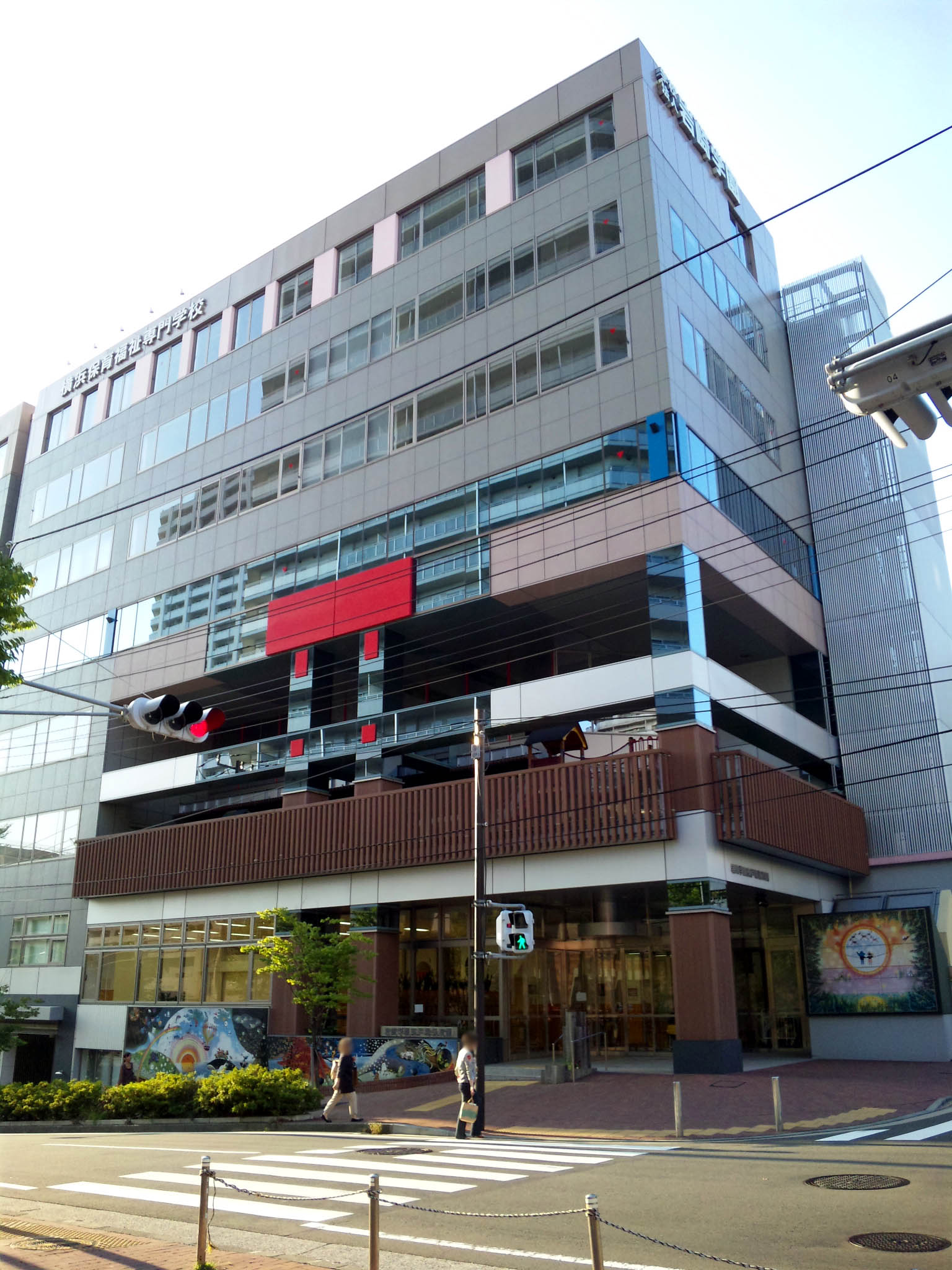 IWASAKIGAKUENN FUKUSI